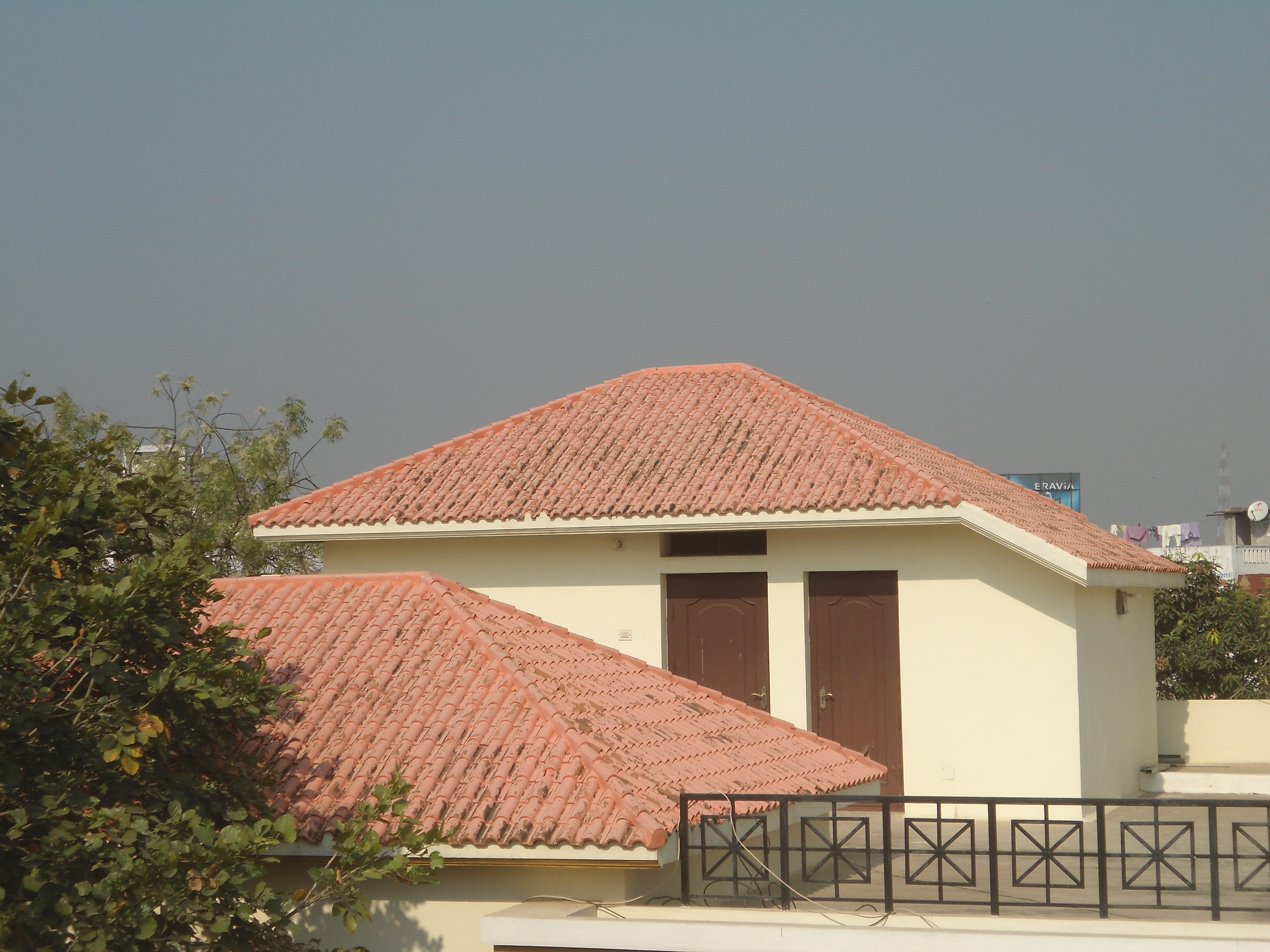 Houses at Khammam city, Andhra Pradesh